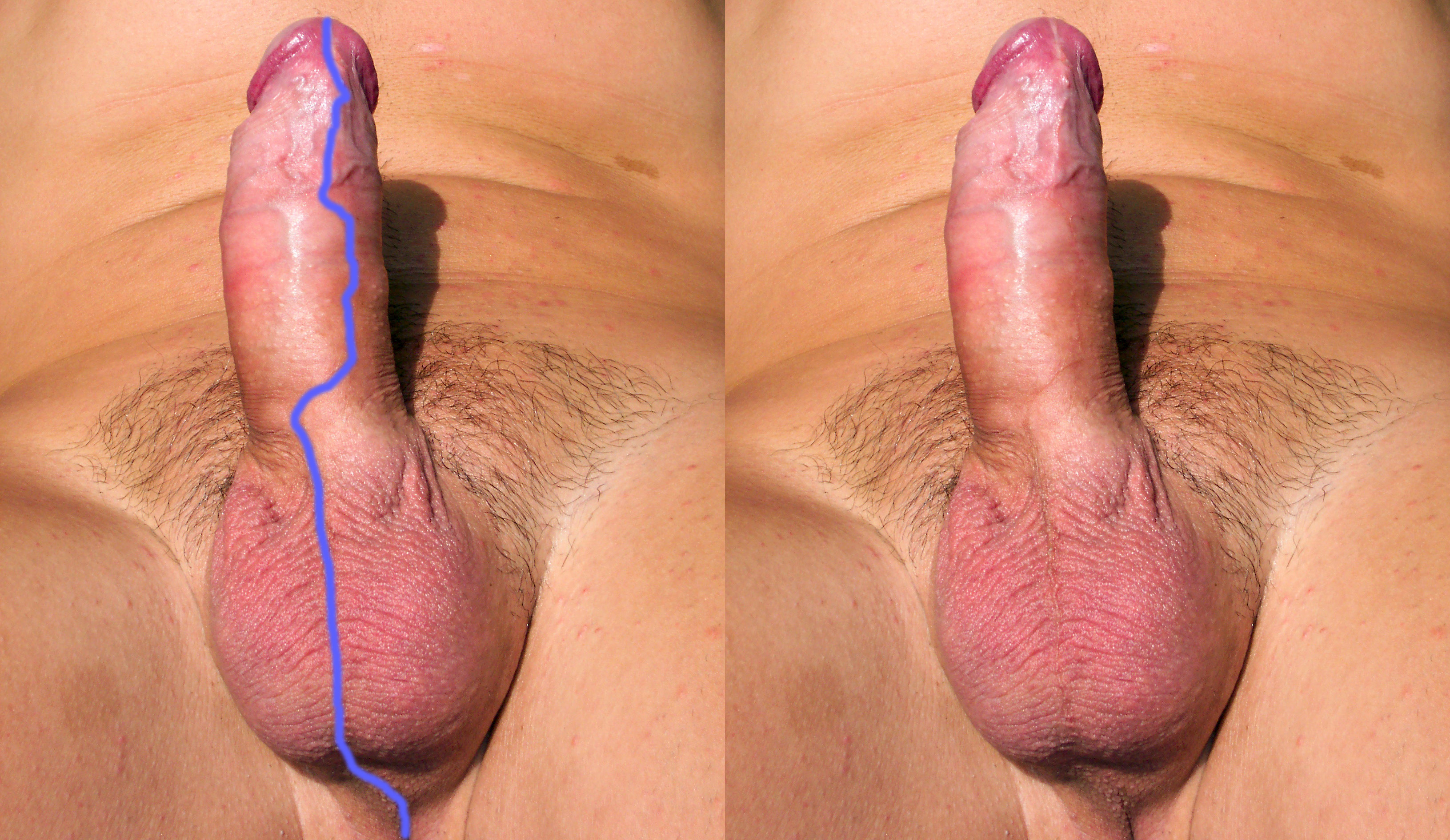 the human raphe penis does not have typically a symmetric course. Characteristically it is symmetric in the ano-scrotal part, but is more or less asymmetric in the penile part; partially epilated adult male, with partial frenulectomy